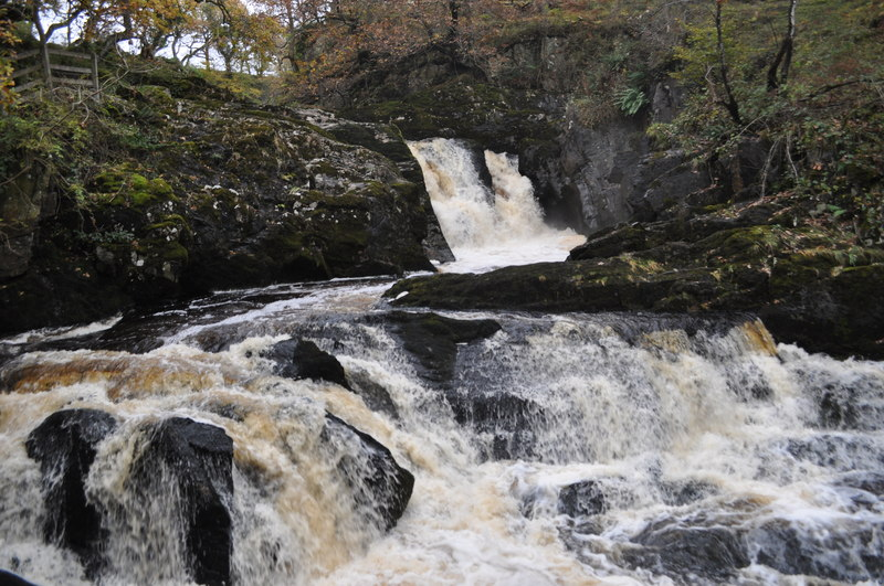 Beezly Falls, near to Ingleton, North Yorkshire, Great Britain. On the waterfalls walk from Ingleton. This is one of the falls at the top of this river. Eroded away out of Ordovician Muds and Shales (metamorphosed).